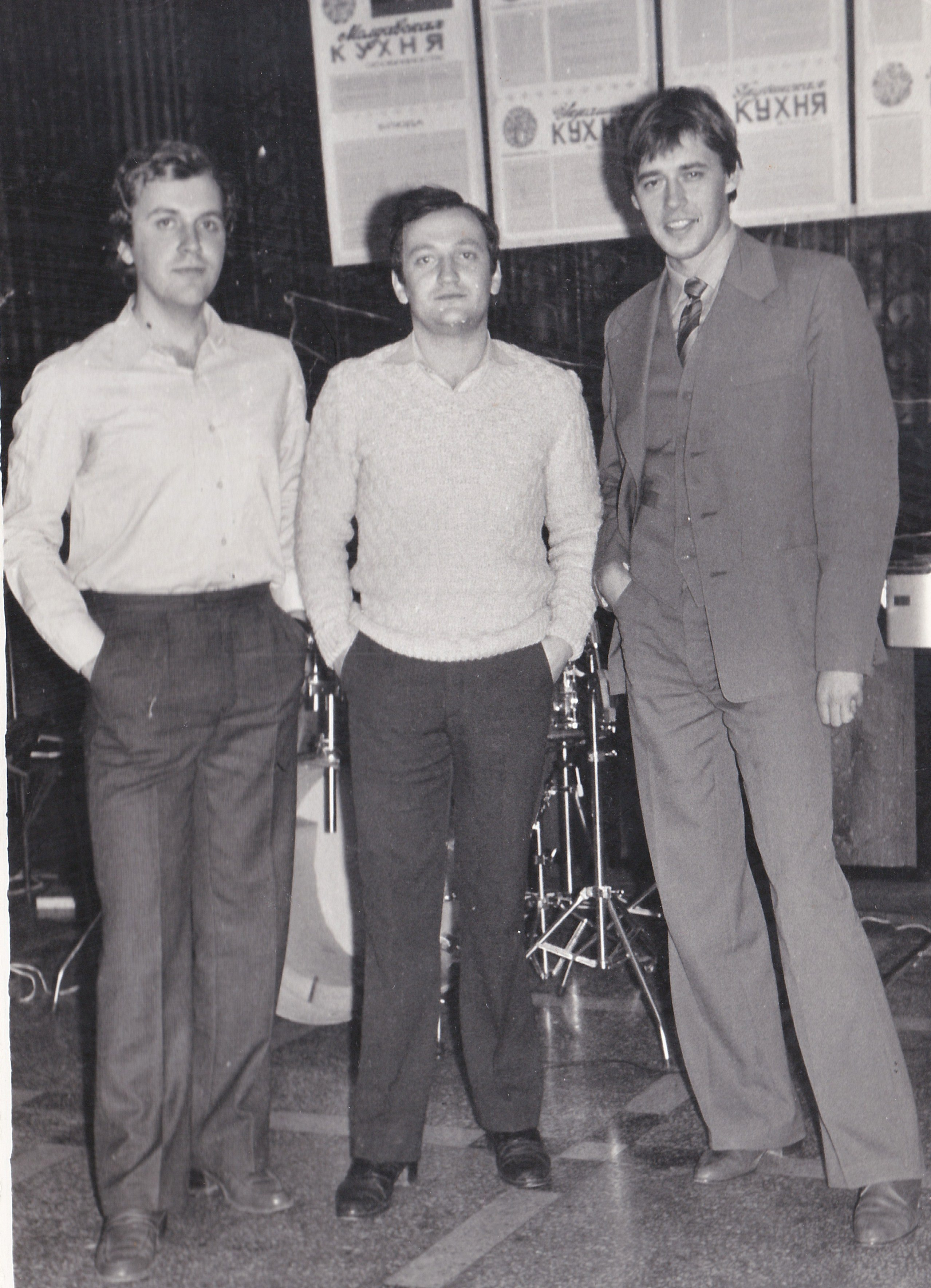 Members of Plai band and Yury Aleabov